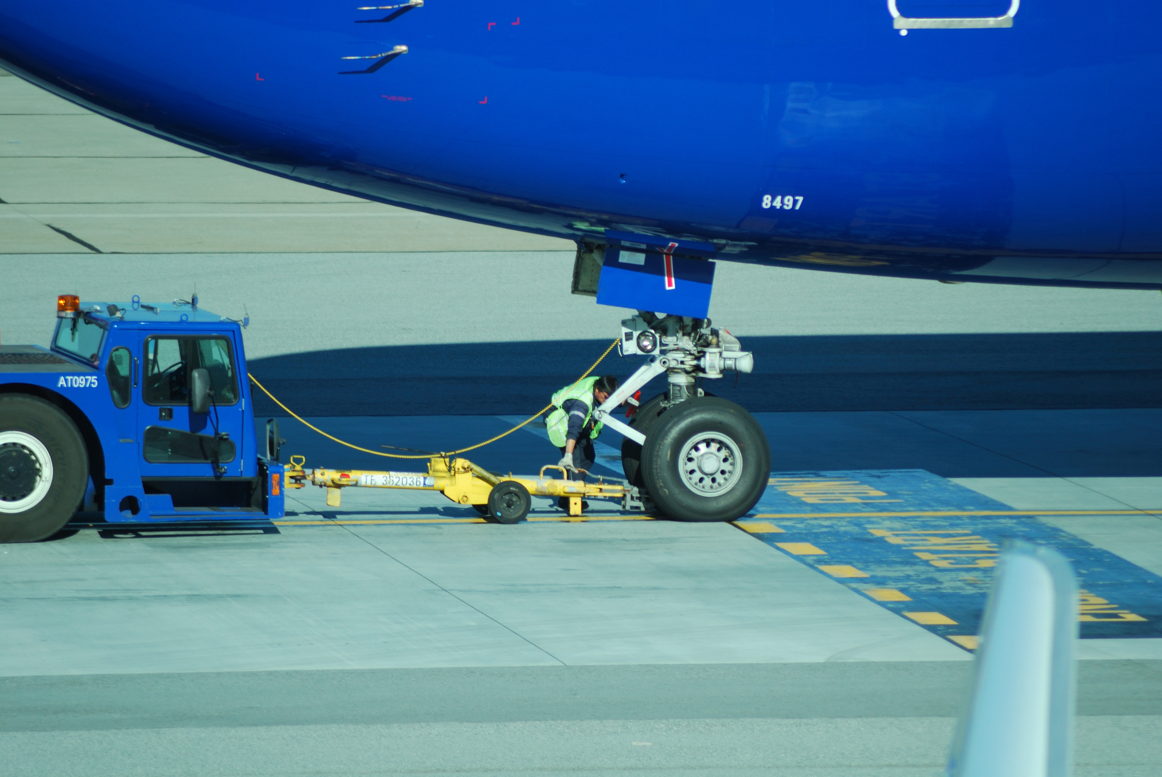 Decoupling a pushback tractor: 3. Step, the Towbar is separated